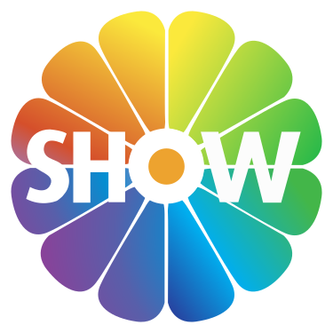 Logo of Show TV.